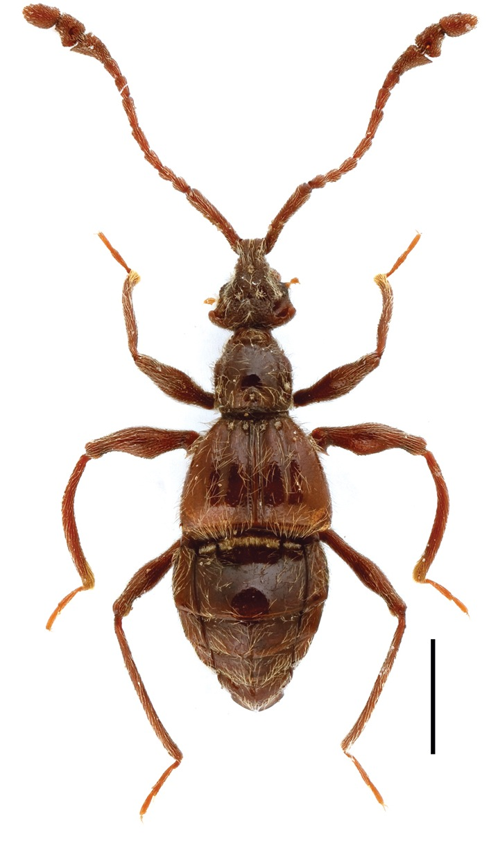 Male habitus of Labomimus schuelkei. Scale: 1.0 mm.